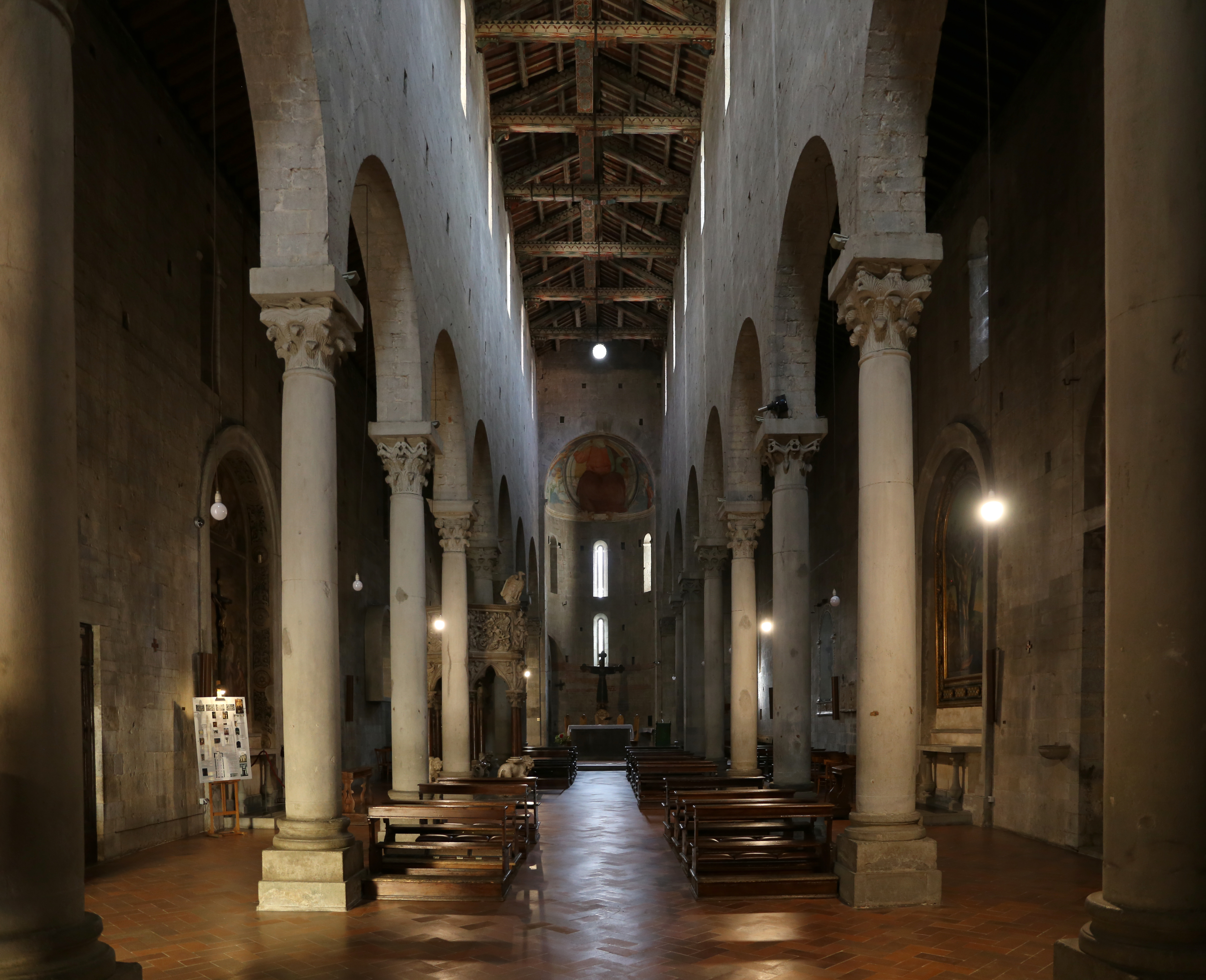 Sant'Andrea (Pistoia)